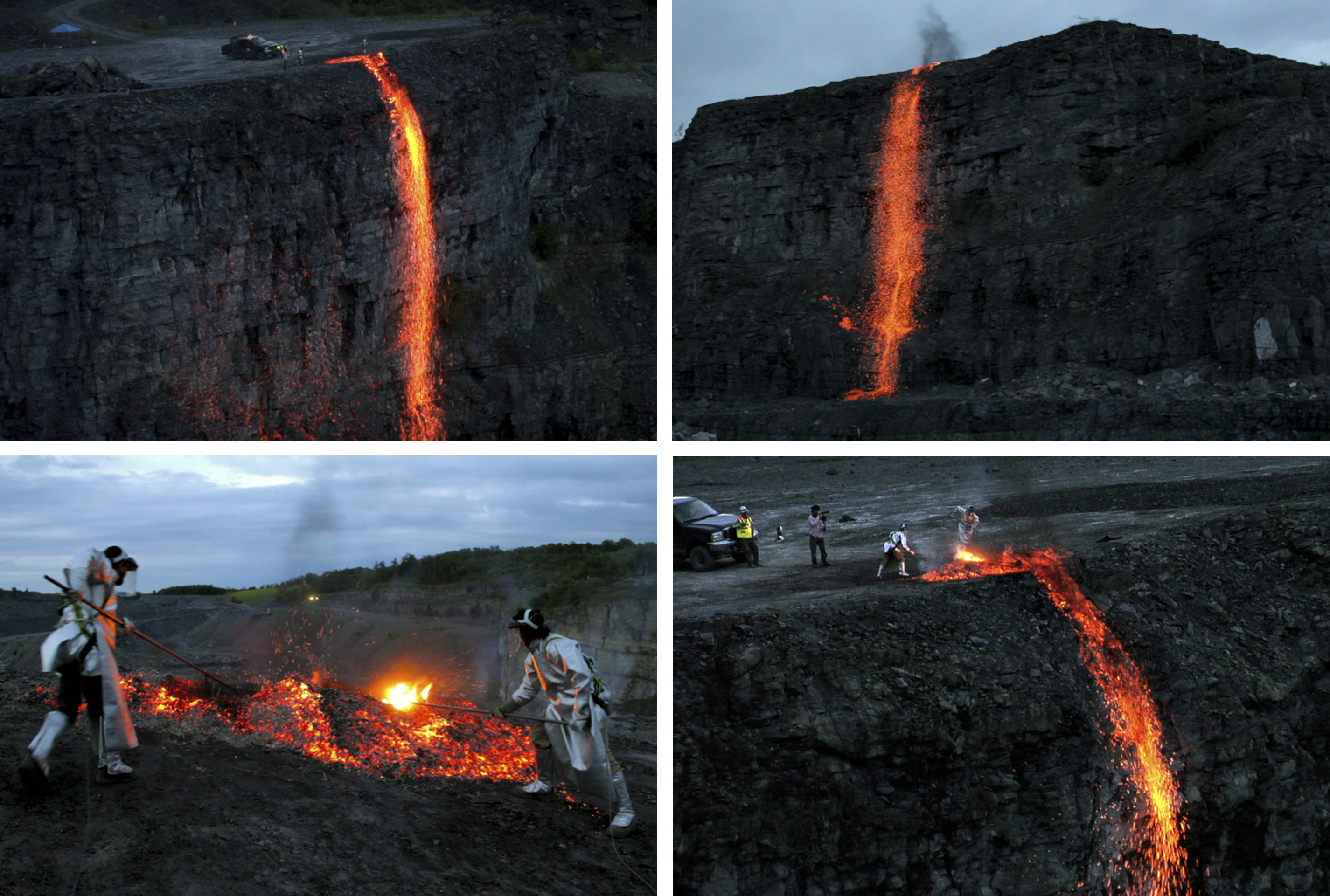 wood, fire, performers public performance / historical recreation 2012